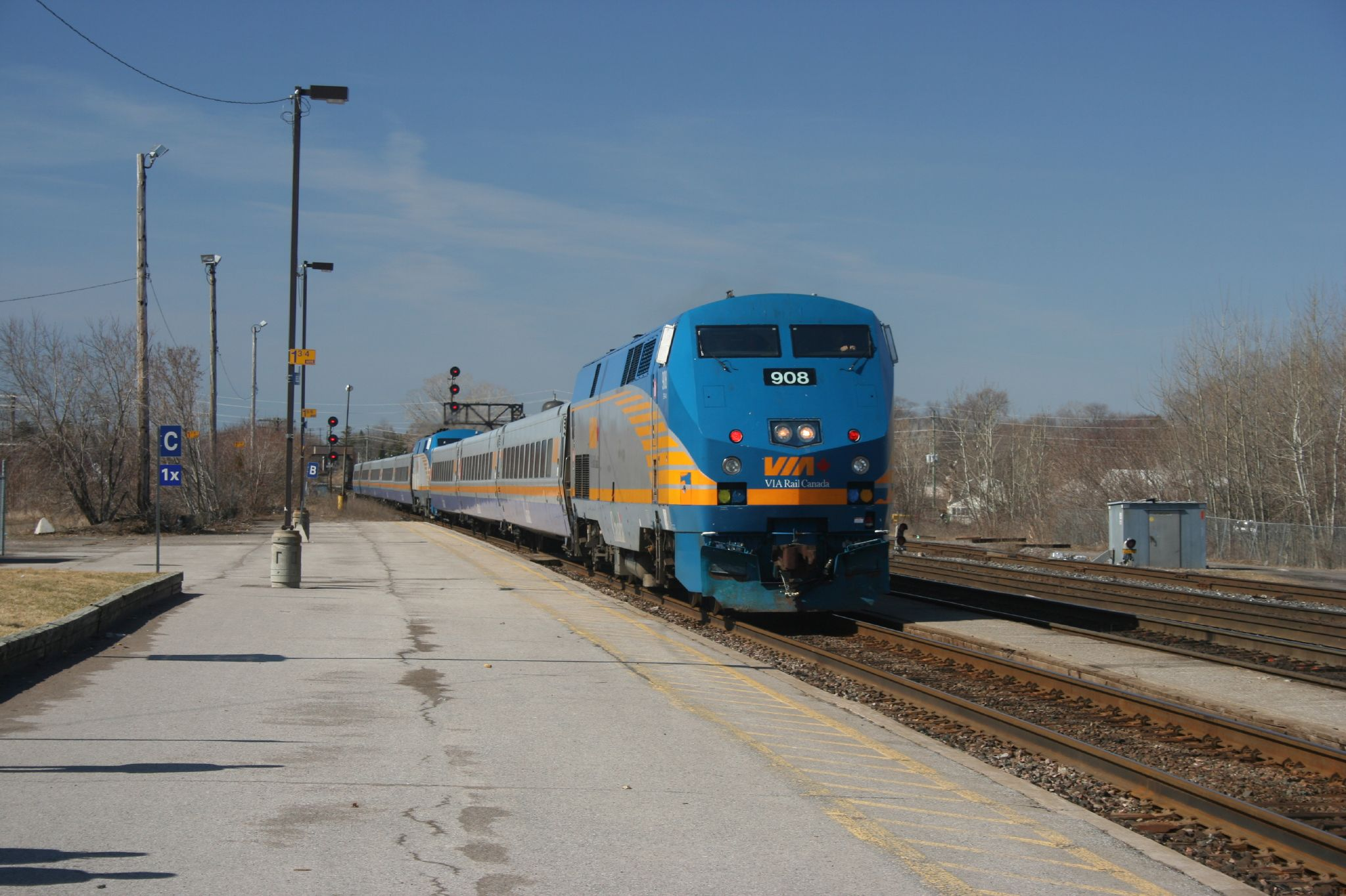 VIA Rail trans 42 and 56 arriving in Belleville from Toronto. 42 is leading, 56 is behind the second locomotive. Train 42 will terminate in Ottawa, train 56 in Montréal.